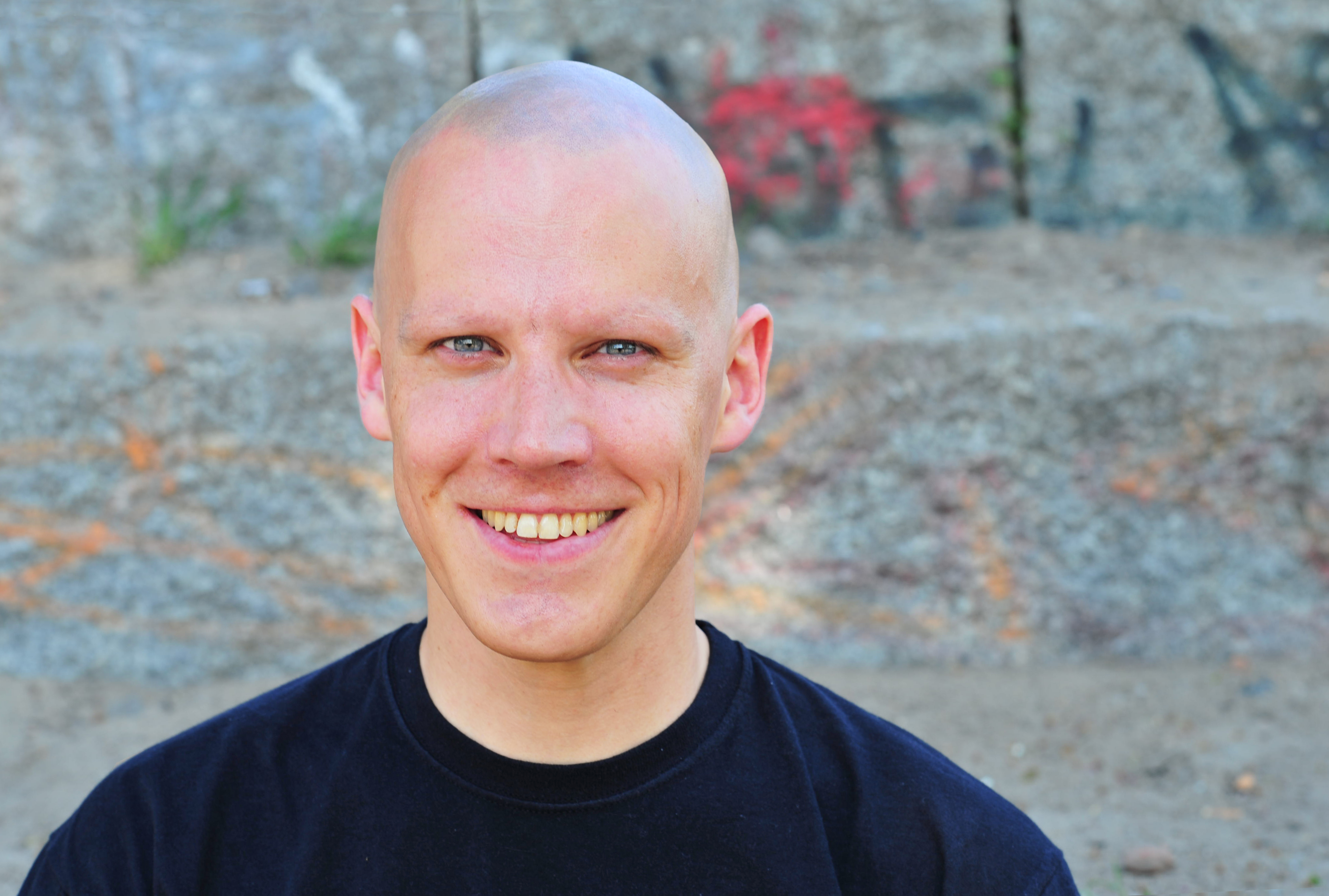 Akstinat, Simon